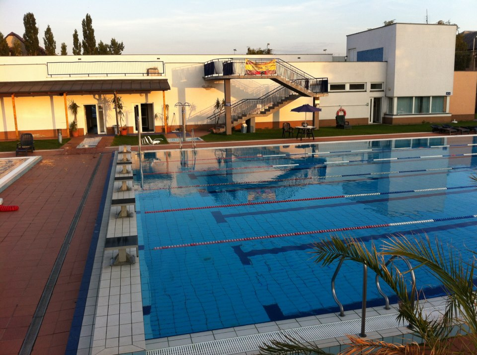 The racing-pool in summer season using